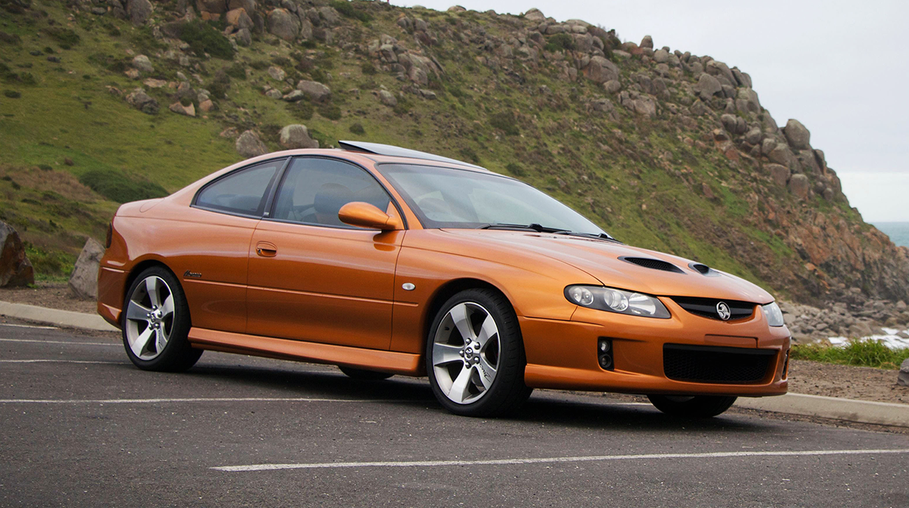 A seaside coastal photo shoot with one of the last built Monaros